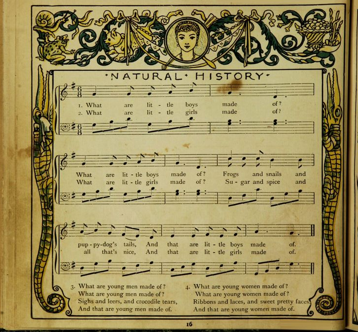 The Baby's Opera: A Book of Old Rhymes with New Dresses by Walter Crane; The Music by the Earliest Masters; Engraved, & Printed in Colours by Edmund Evans, Publisher: London & New York, George Rutledge & Sons